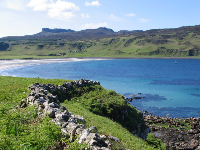 Coast near Laig Bay